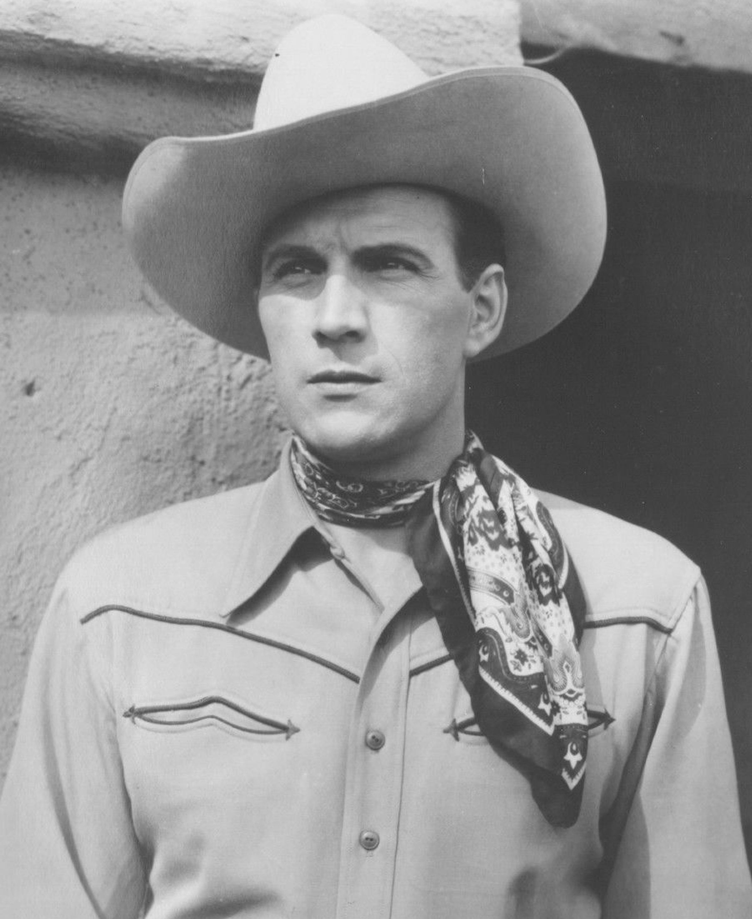 Tom Tyler publicity photo